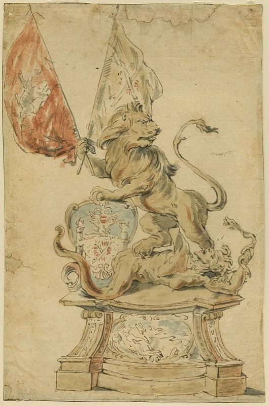 Anonymous sketch from c. 1724 showing the 35 pound, solid gold allegorical sculpture with, among other things, the historical lion of Ostend and the coat of arms of both the Ostend Company and Emperor Charles VI. Article 103 of the founding charter of the Ostend Company required that the owners of the newly-created trading company give such a sculpture to the Emperor as a gift to thank him for granting the charter. (J.N. Pasquini, Histoire de la ville d'Ostende et du port, Ostende, 1842, p. 225)